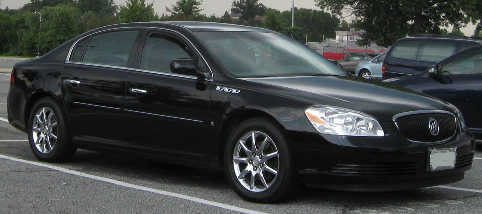 2006-2009 Buick Lucerne photographed in College Park, Maryland, USA.